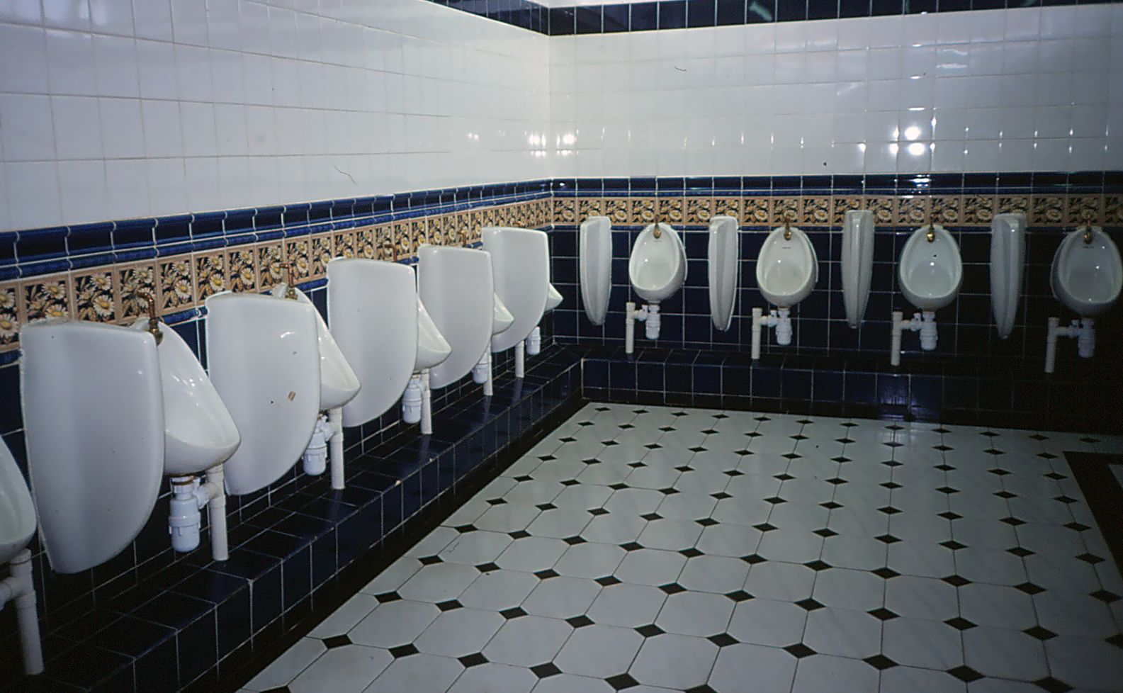 Men's toilet urinals on Palace Pier in Brighton. June 24, 1997.